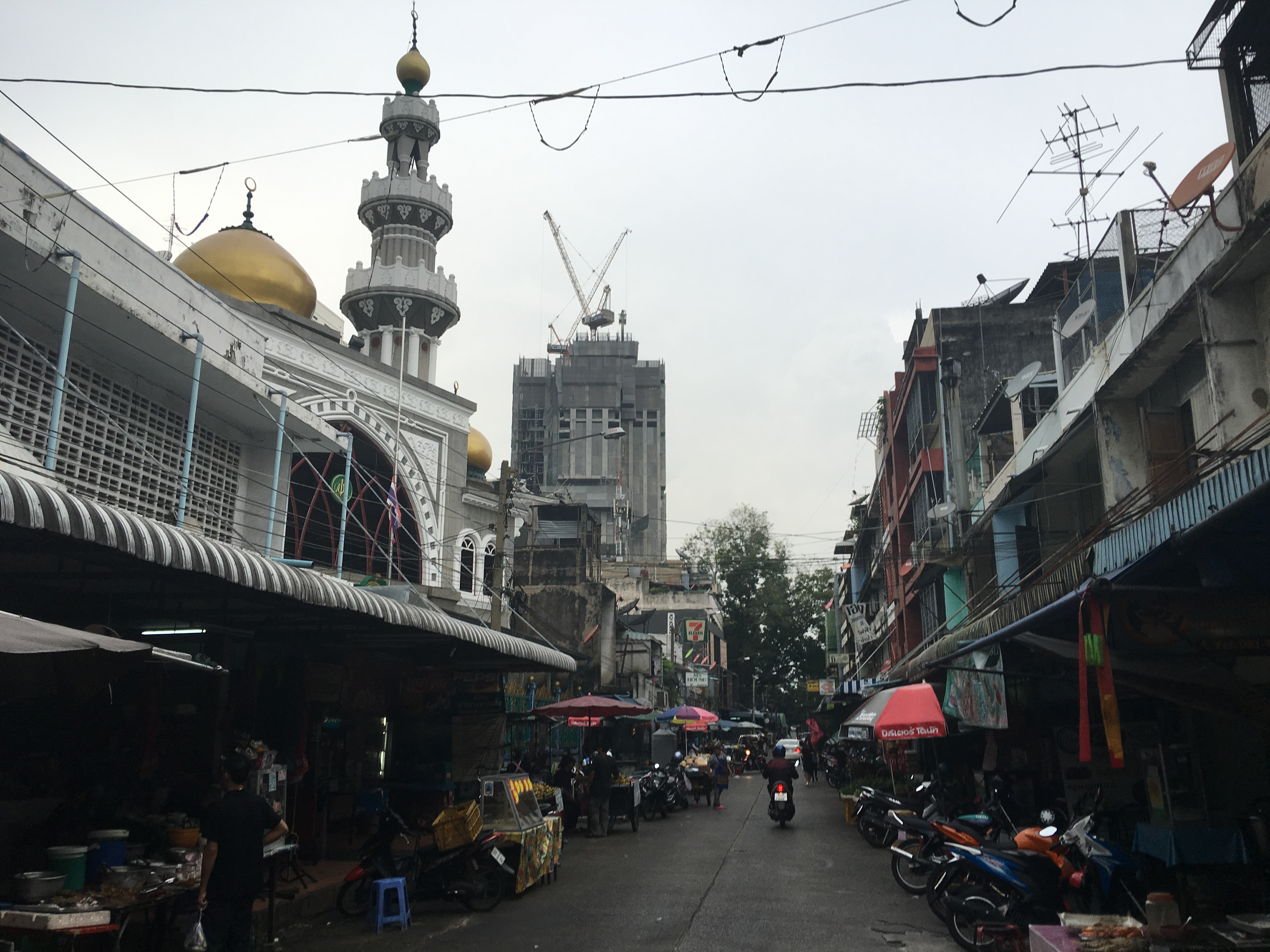 Mirasuddeen Mosque is situated in one of the sidetrack of Silom Road, Bangkok